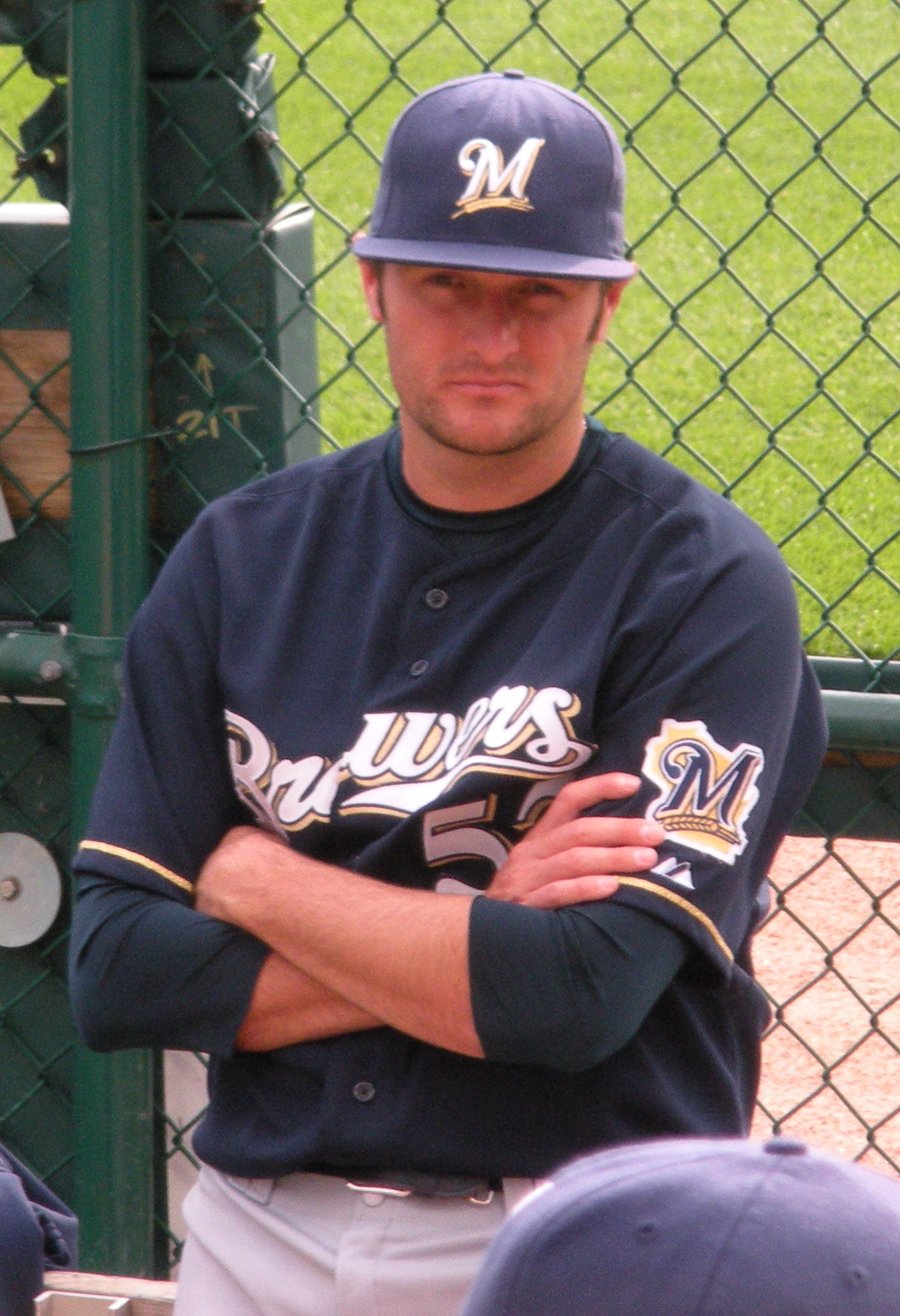 Chris Smith